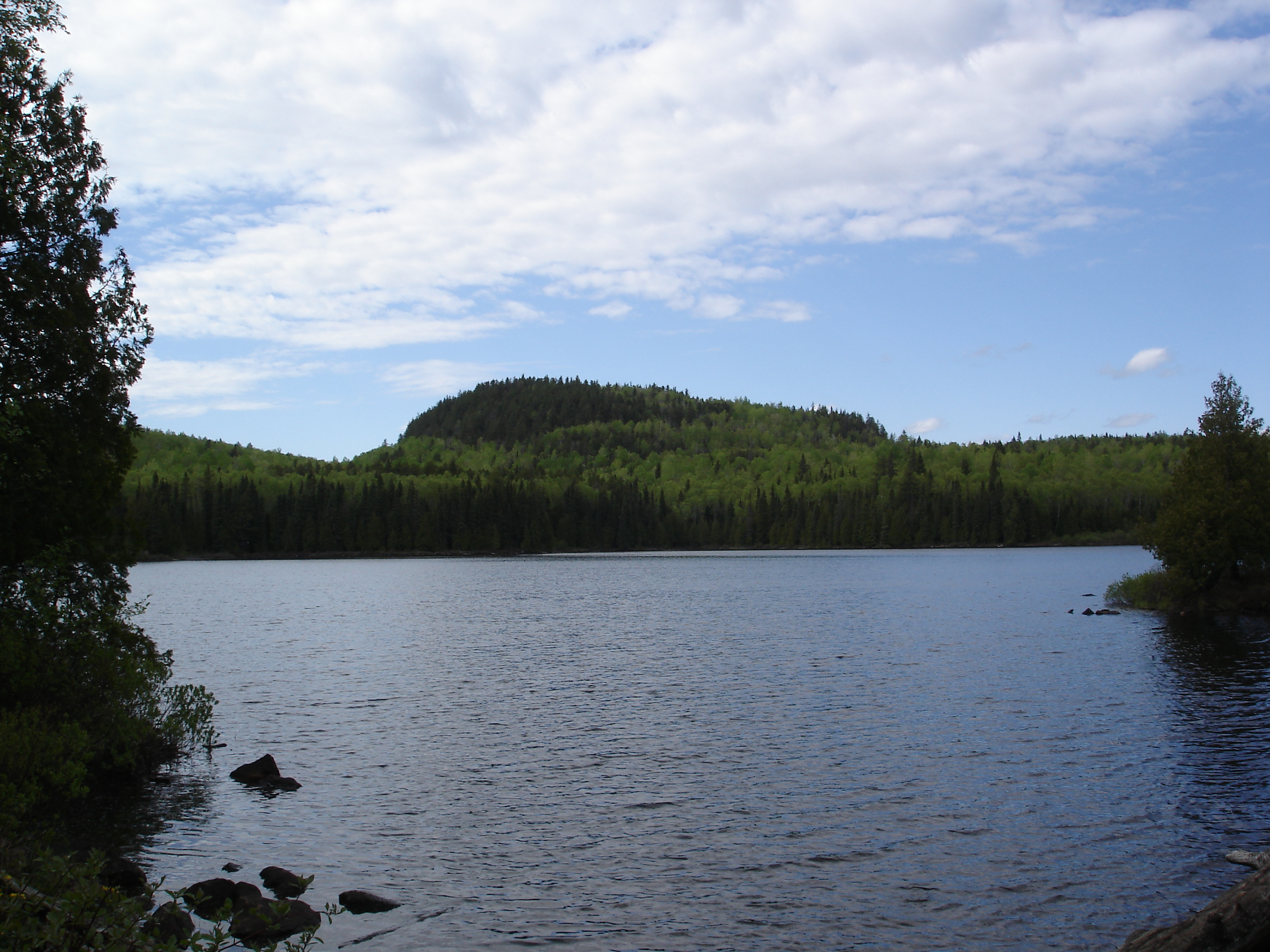 Whale Lake at the base of Eagle Mountain (not pictured), Minnesota's Highest point.